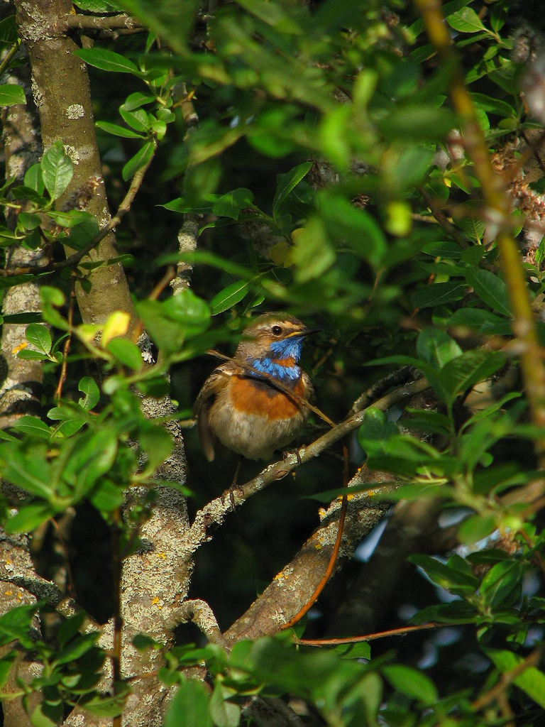 Варакушка, known in English as Bluethroat and in Latin as Luscinia svecica. Pozhitkovo, Moscow region, Russia.